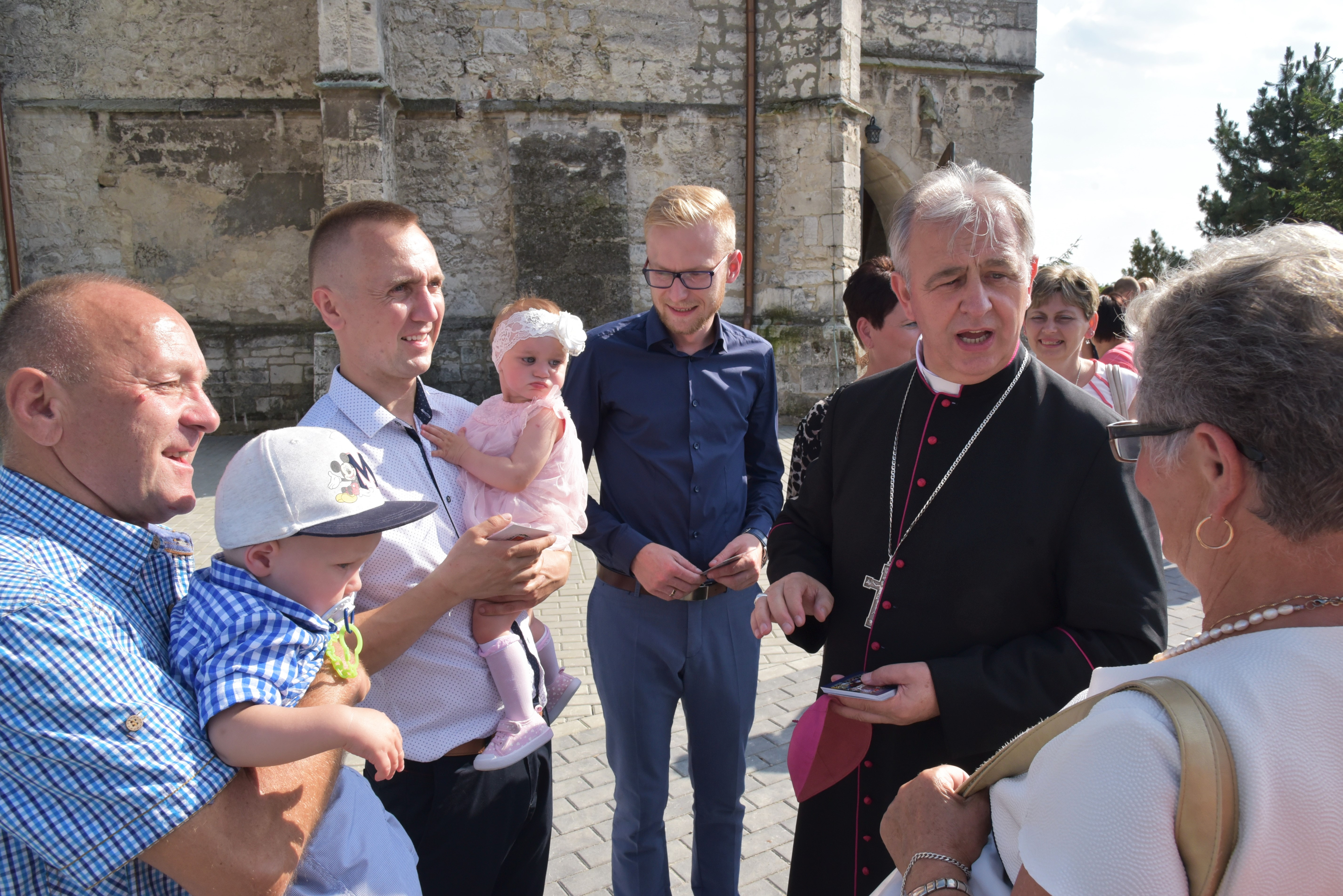 Bishop Jan Piotrowski, diocesan bishop of Kielce. Strożyska, 20 June 2018.